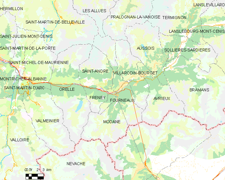 Map of French municipality